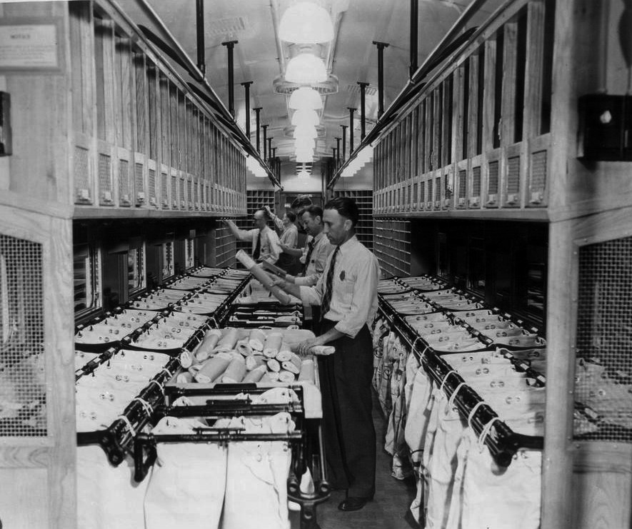 Photo of a Railway Post Office at work on the Chicago and North Western.